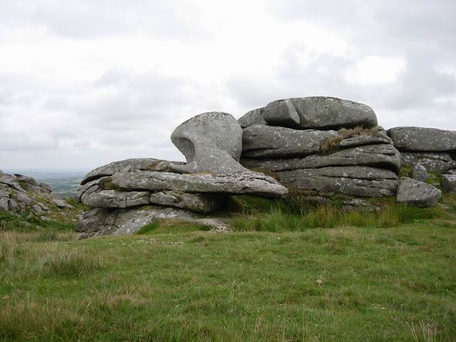 Windshaped rock. On the western end of Sharp Tor.